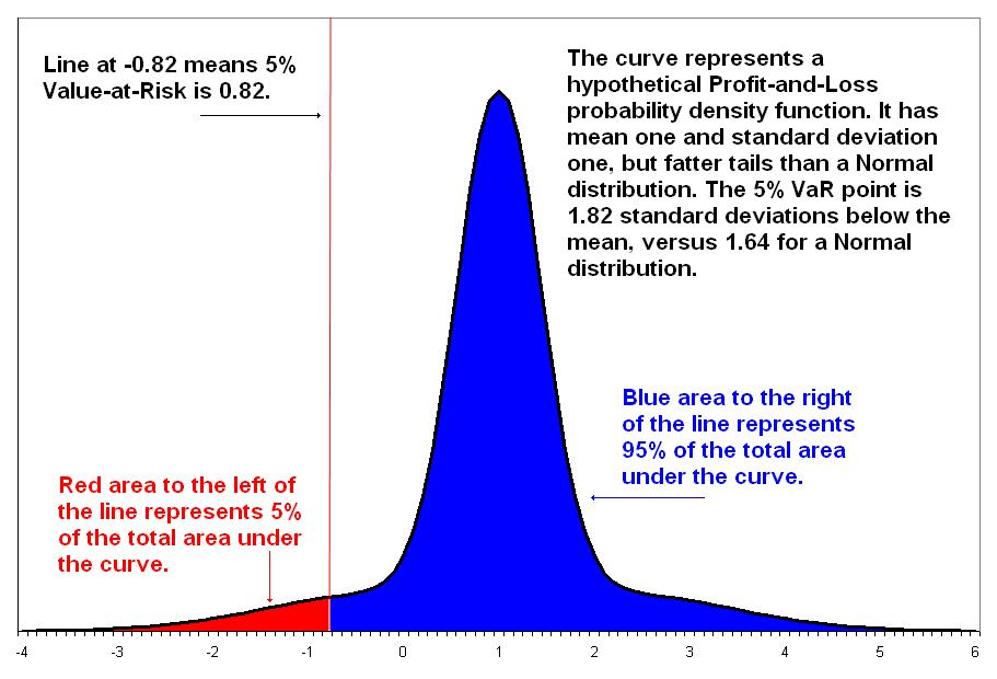 Created by AaCBrown on June 21, 2010 for use in the Value-at-Risk articleAaCBrown (talk) 14:51, 21 June 2010 (UTC)